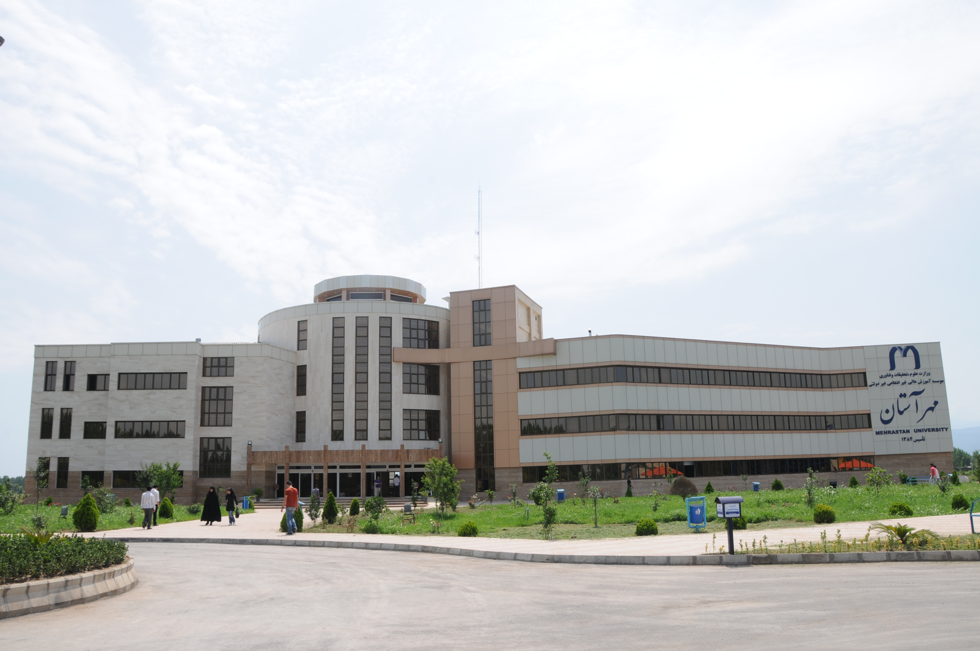 Institute Mehrastan